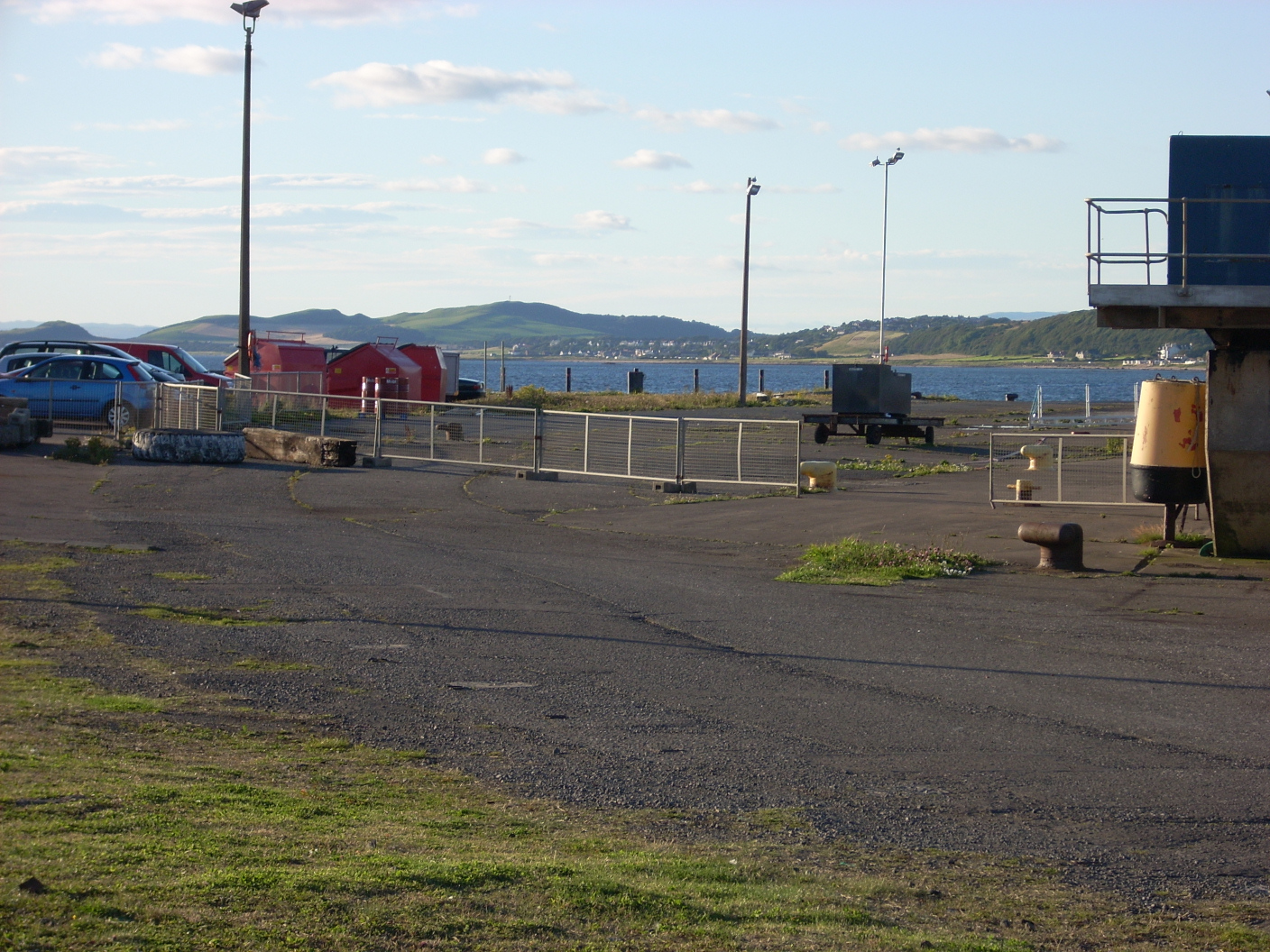 The site of Ardrossan Winton Pier railway station in 2007. Nothing remains of the station, although the curves where the island platform was located can still be seen on the ground. Photograph by Dreamer84.